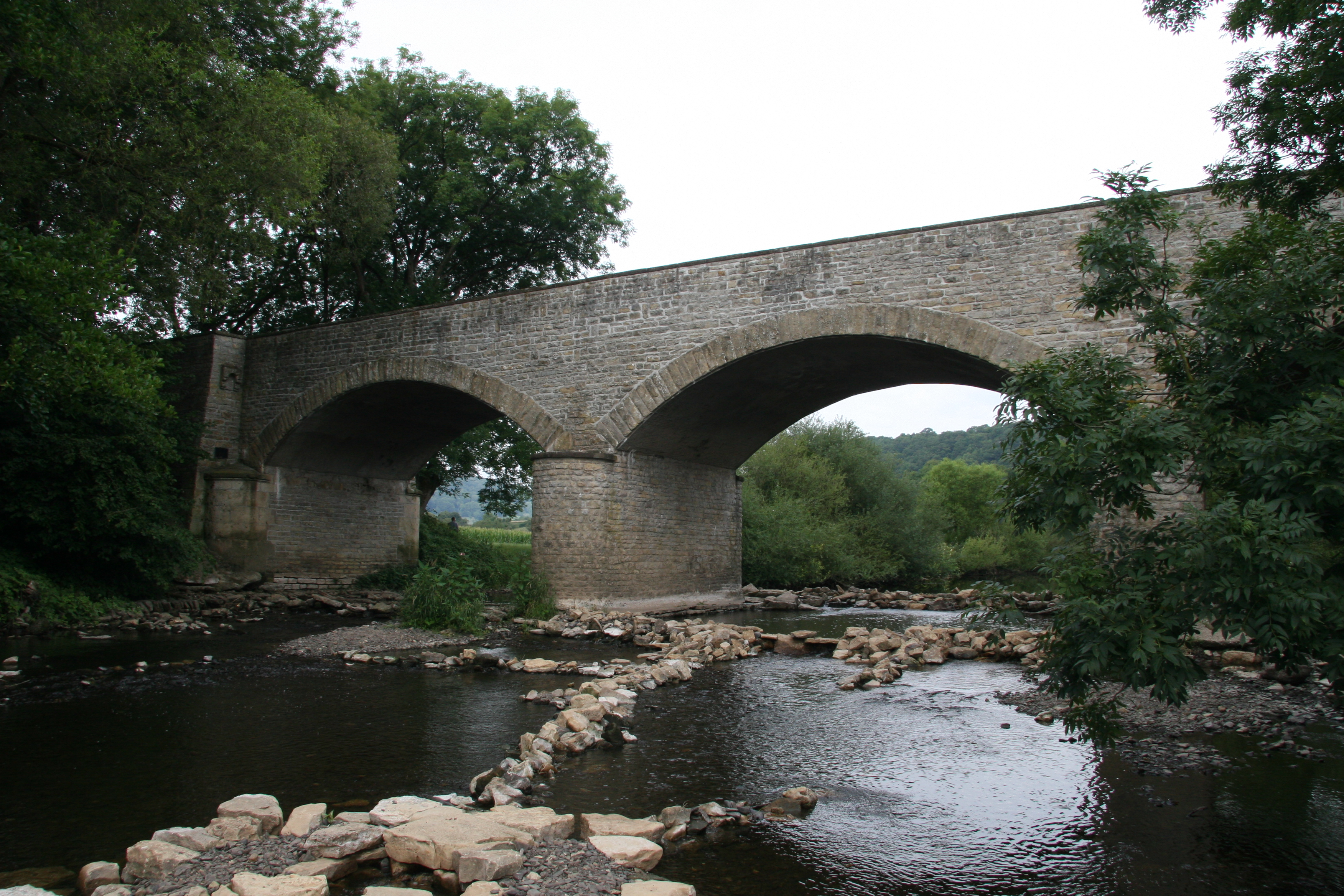 View from Germany on the bridge of Wallendorf (D) accross the river Our between Germany and Luxembourg.